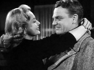 screenshot of Virginia Mayo and James Cagney from the film White Heat